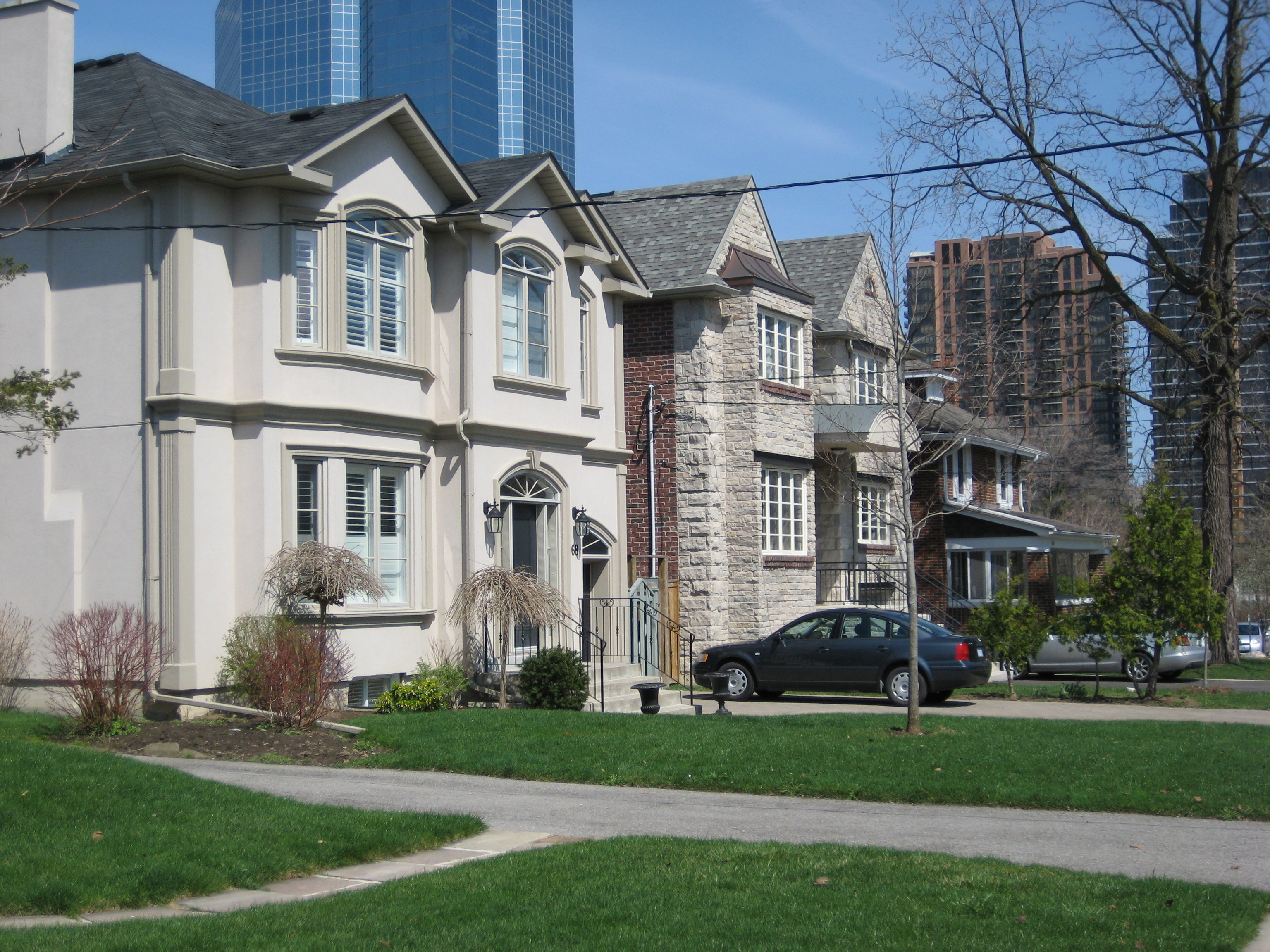 Houses in Lansing